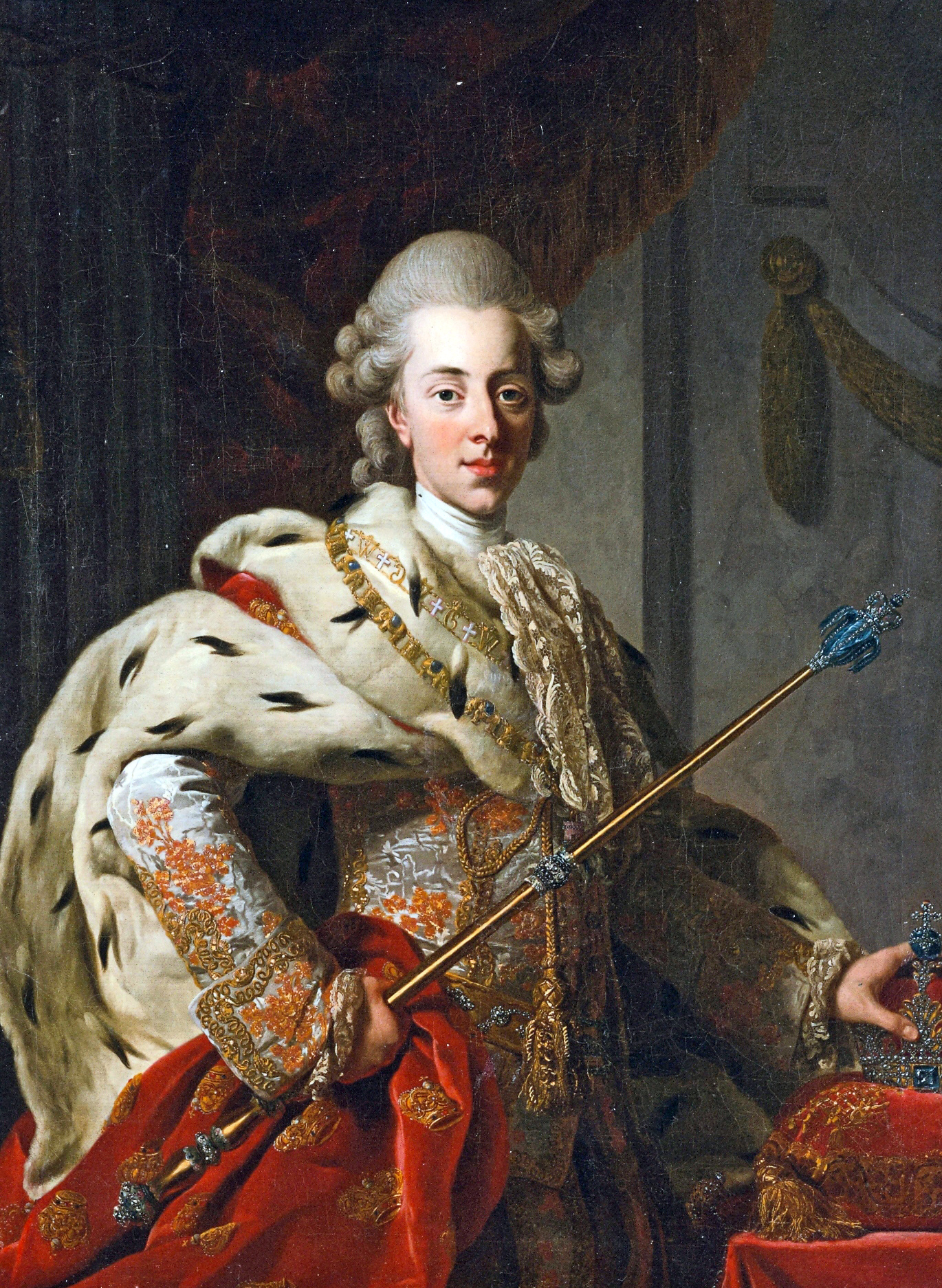 in a Louis XVI frame carved with stiff-leaf and ropetwist and headed by a scrolling cartouche